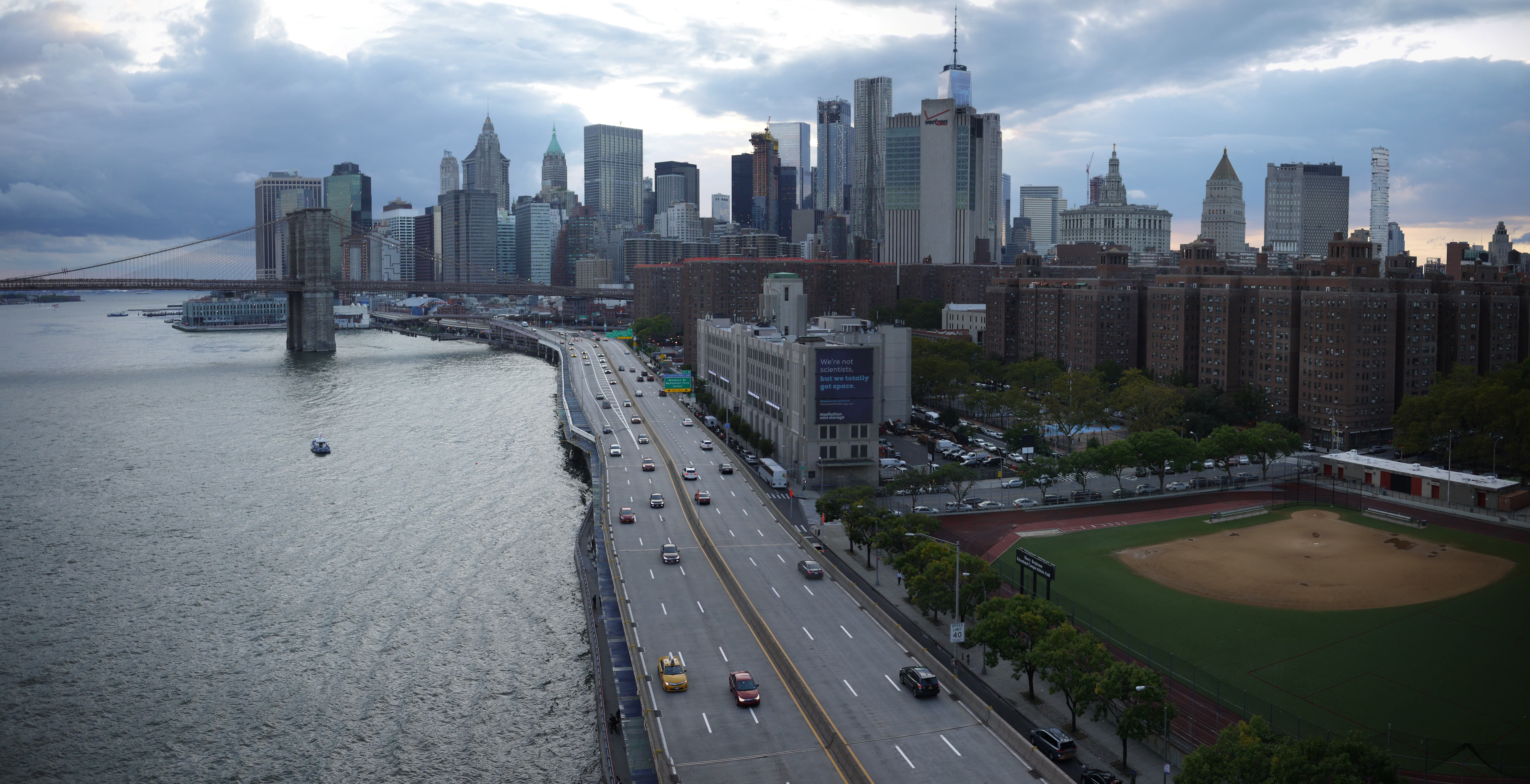 FDR Drive approaching Brooklyn Bridge